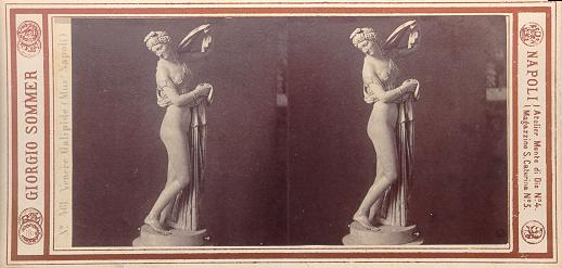 Giorgio Sommer (1834-1914), "Callipigian Venus in the National Museum in Naples", Italy. Stereo card. Catalogue # 461.